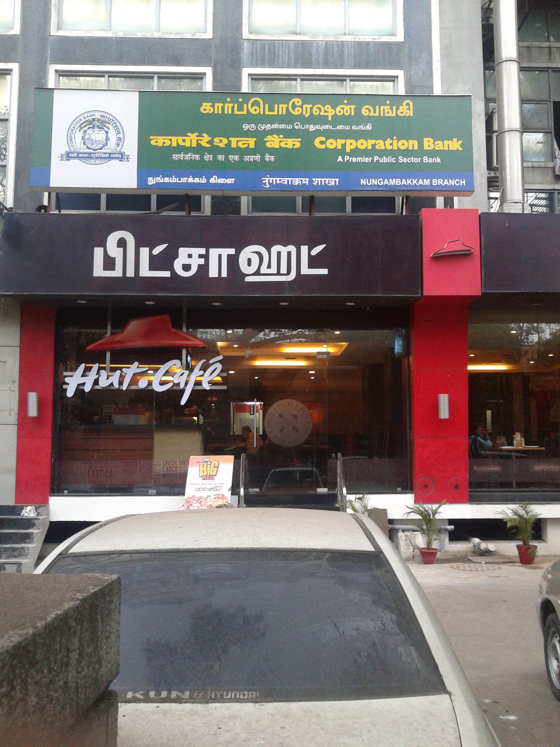 Location:Sterling Road, Nungambakkam Chennai, Tamil Nadu Description: Tamil nameboards of Pizza Hut and Corporation Bank's local outlets